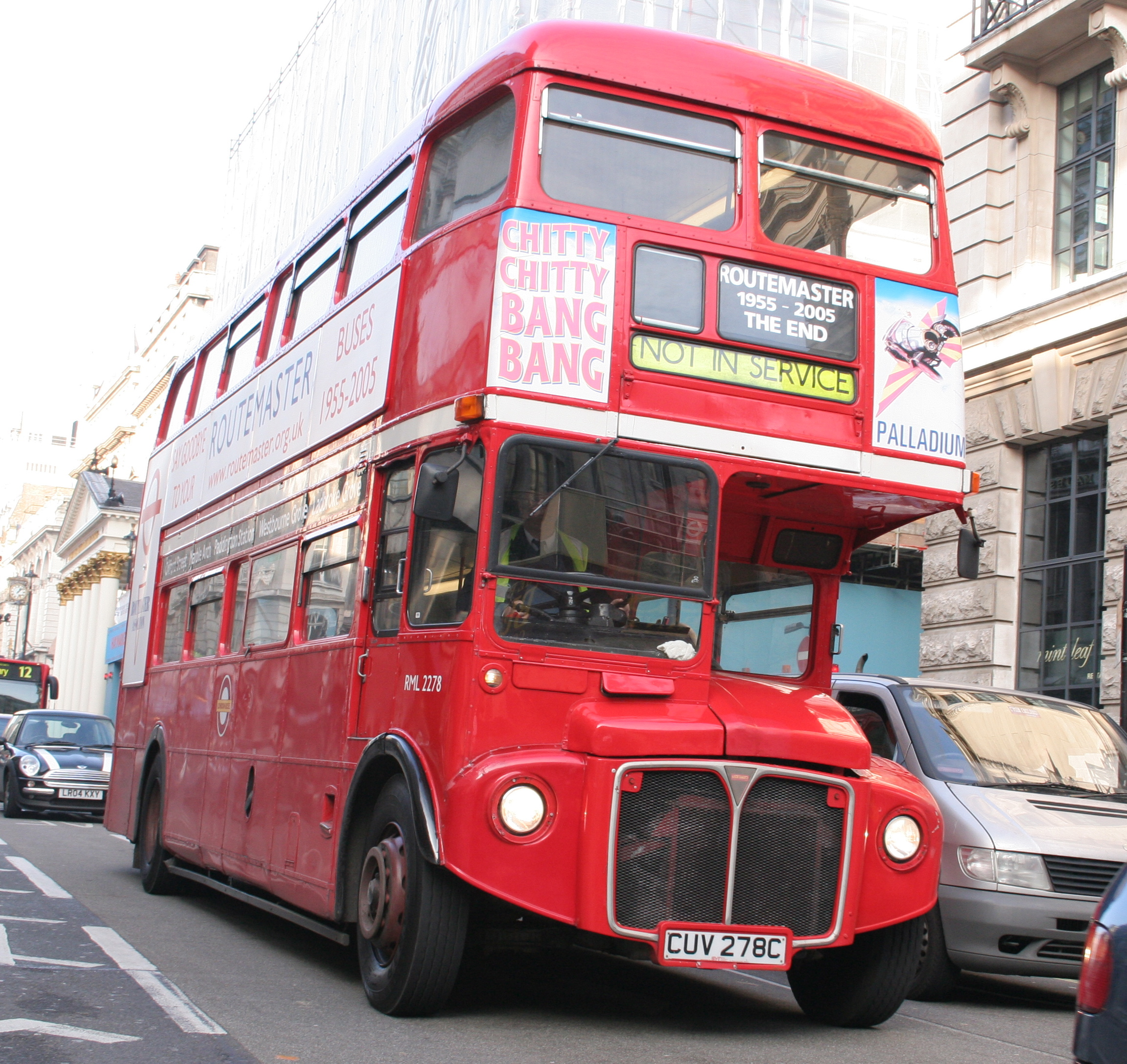 Preserved Routemaster bus RML2278 (reg. CUV 278C) pictured at the bottom of Haymarket in London, heading south. It's running along the route of London Buses route 159 as a private vehicle (ie not in passenger service), one of several doing the same to mark the last day of non-heritage Routemaster operation in London. For this it wears a special Routemaster 1955-2005 The End route destination and a white advert on its side from the Routemaster Association, which says "Say Goodbye To Your Routemaster Buses 1955-2005". It's preserved in the London Buses white stripe/orange roundel livery and black route branding it wore as a pre-privatisation London Buses vehicle with the introduction of route 23, in 1992. The livery was short lived, with the post-privatisation CentreWest, and later First London, liveries being applied (but retaining the black route branding)